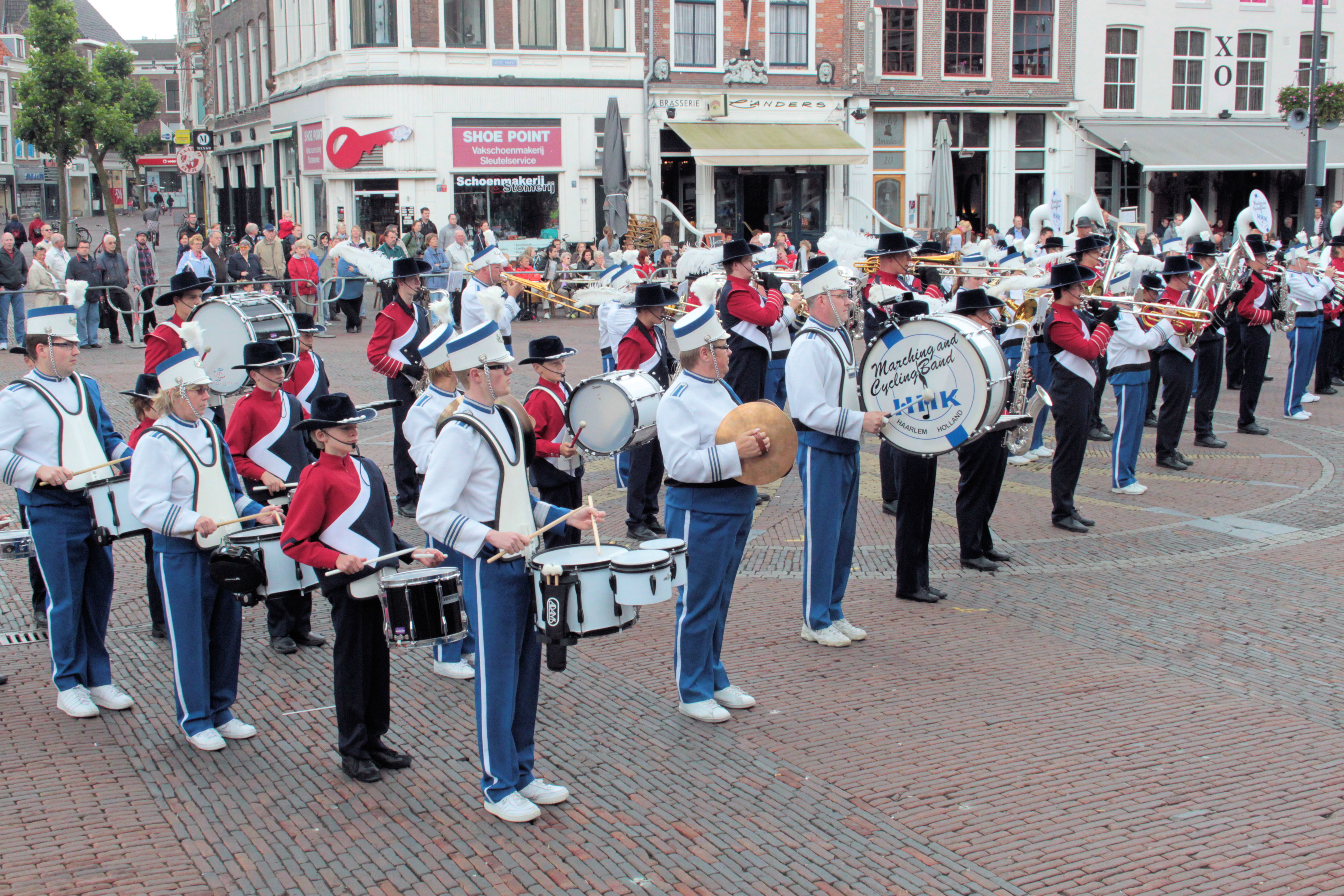 Opening of the March of the Musicians of 2011 Unknown